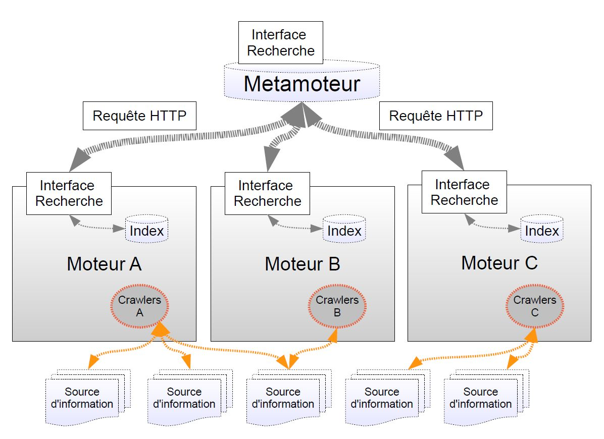 Metasearch workflow